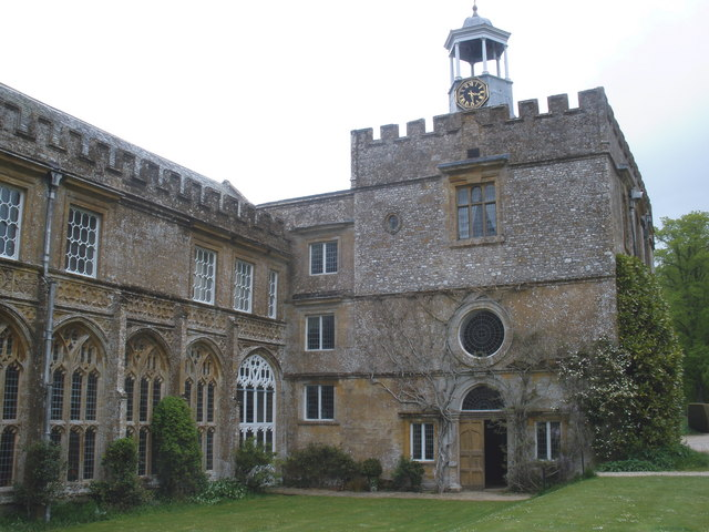 The Chapel, Forde Abbey Formerly the Chapter House of the Cistercian Monestery.